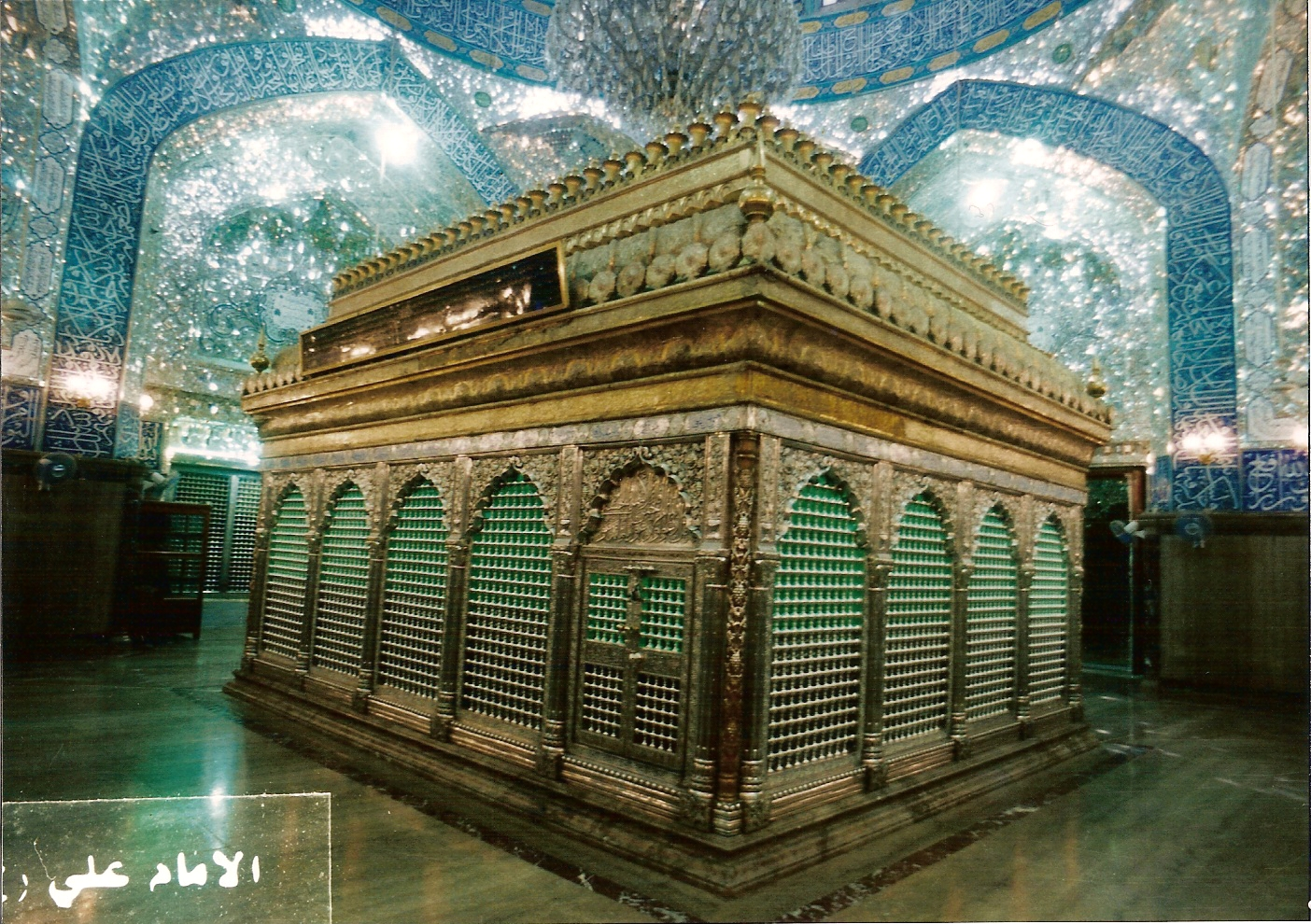 Imam Ali Mosque - Shrine of: 1st Shia Imam - Ali ibn abi Talib; Prophet Adam; and Prophet Nuh. (Najaf, Iraq)